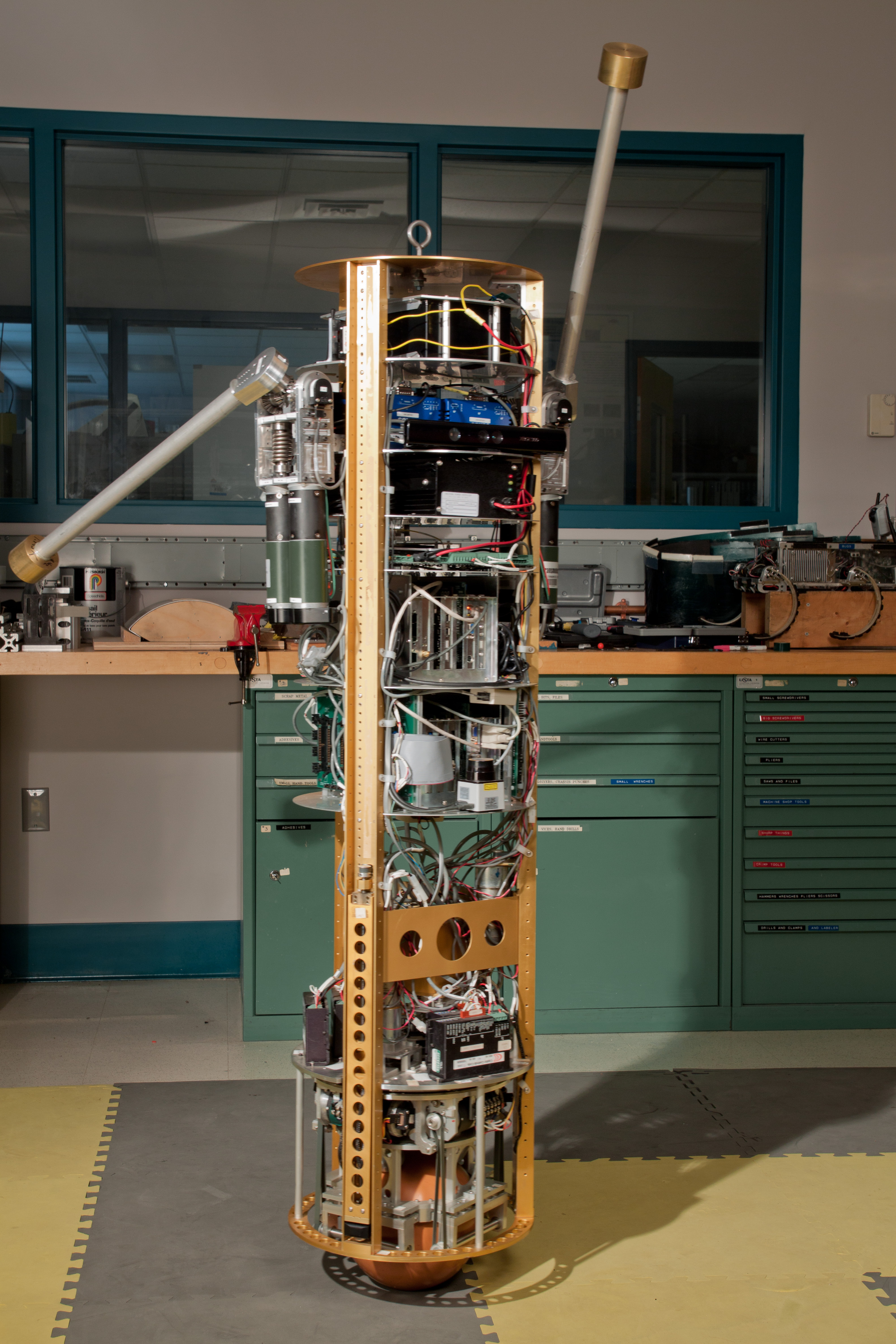 This picture shows the CMU Ballbot with a pair of 2DOF arms.